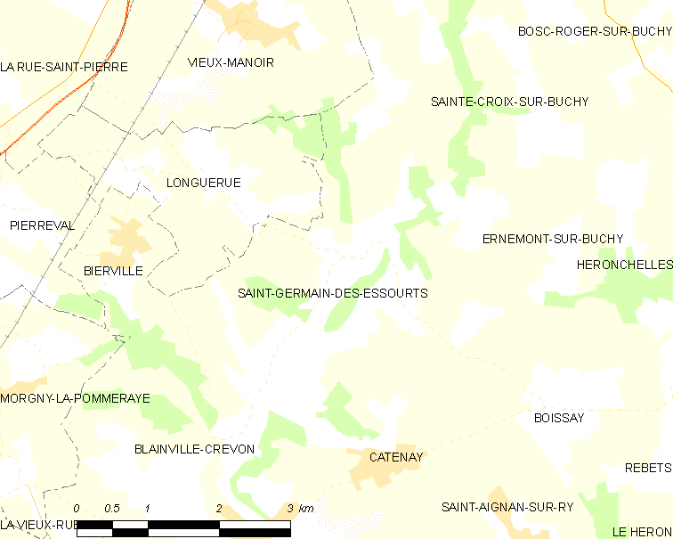 Map of French municipality Saint-Germain-des-Essourts